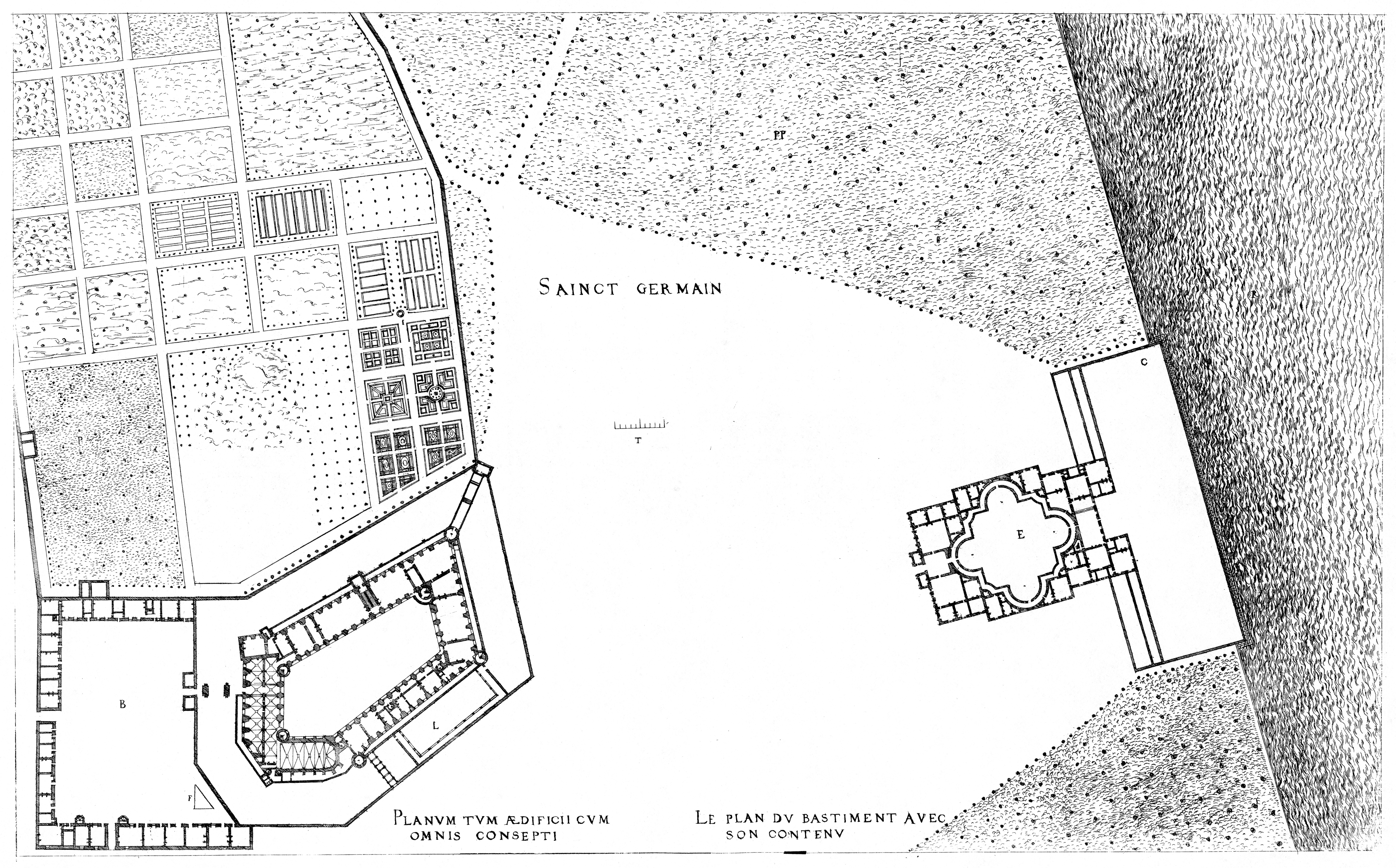 Engraving from Le premier volume des plus excellents Bastiments de France by Jacques I Androuet du Cerceau: general plan of the Château de Saint-Germain-en-Laye